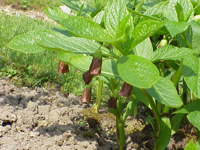 Species: Scopolia carniolica Family: Solanaceae Image No. 1